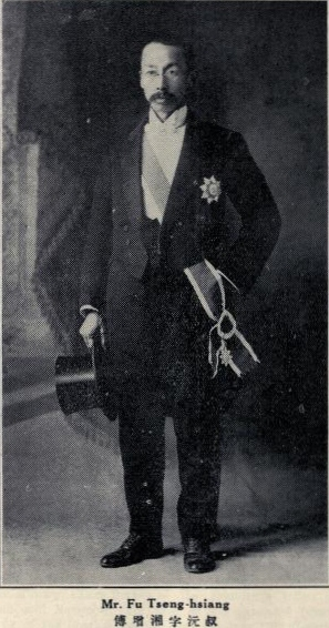 Fu Zengxiang, Yuanshu (1872 - 1949)